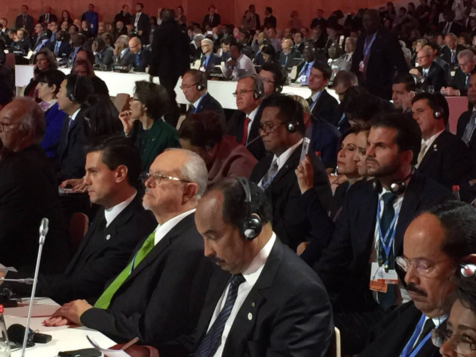 Conferencia de la ONU sobre Cambio Climático COP21